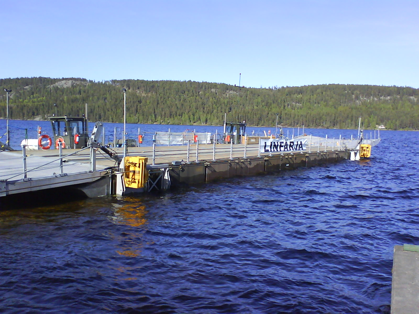 Temporary car ferry VV-ponton 100 SHXP